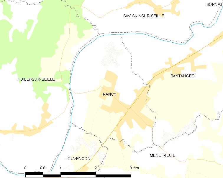 Map of French municipality